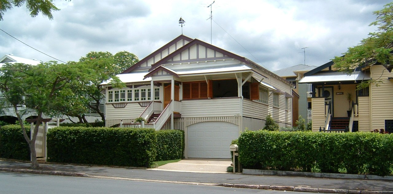 A Queenslander in New Farm, Queensland. Photo taken by User:Adz on 8 October 2005.